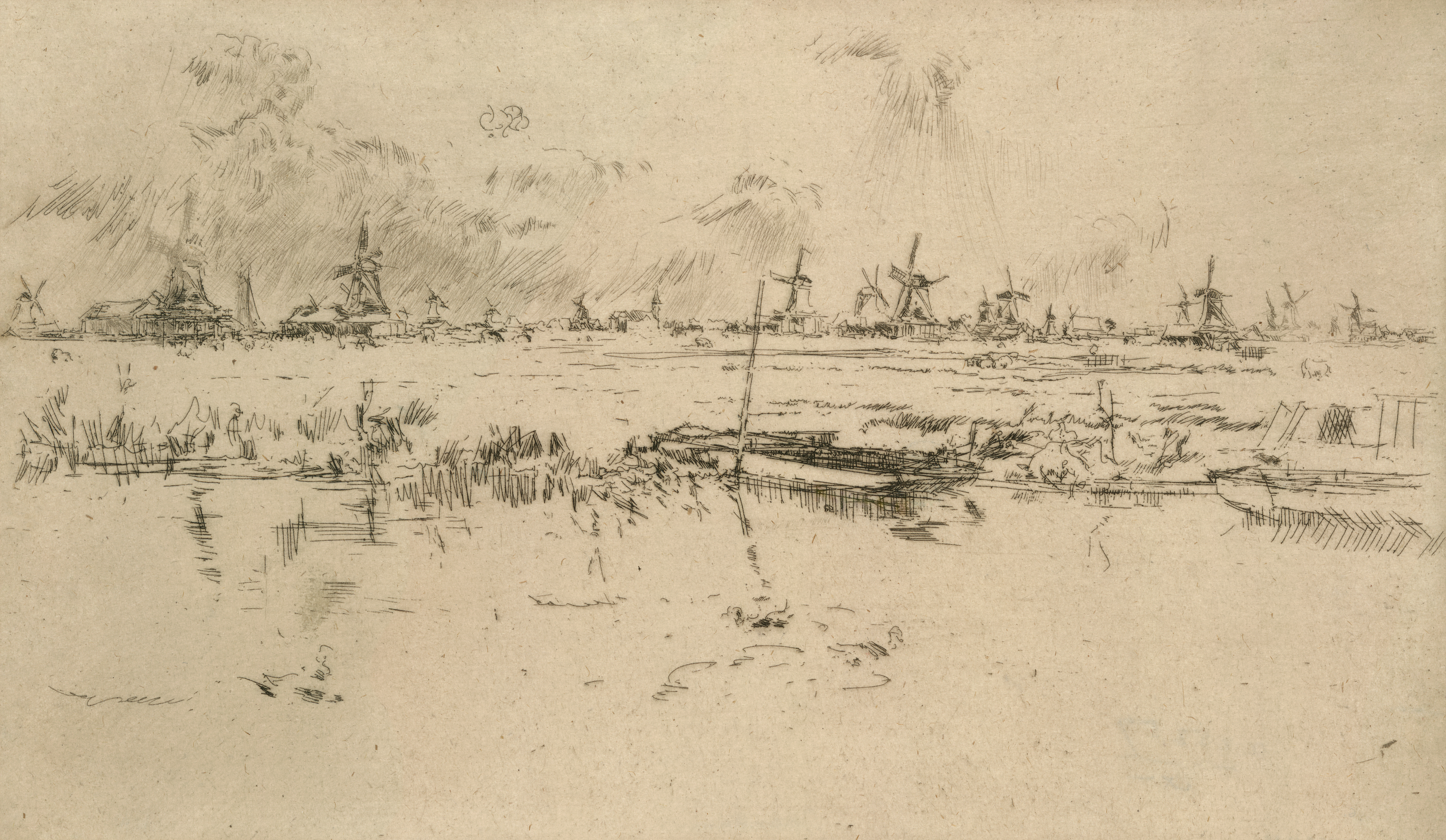 Zaandam (Holland prov., Netherlands, with windmills in background) 1 print: etching.